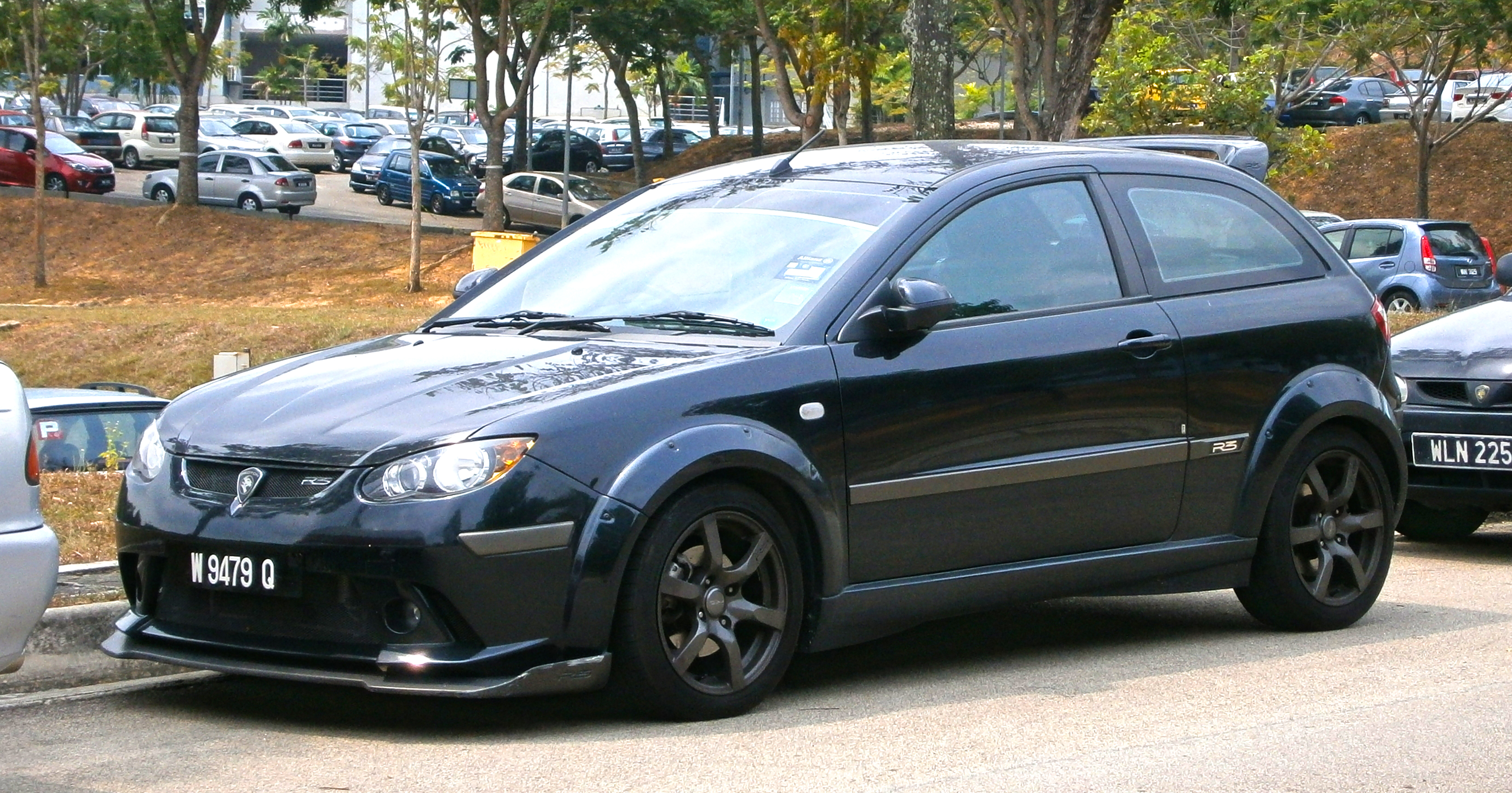 2014 Proton Satria Neo R3 3-door hatchback